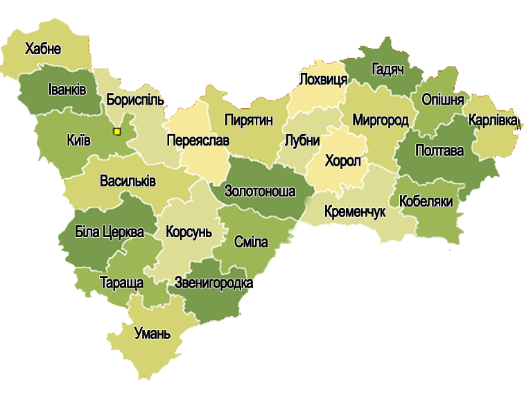 Map of the administrative division of the General District Kyiv (1942-1943)